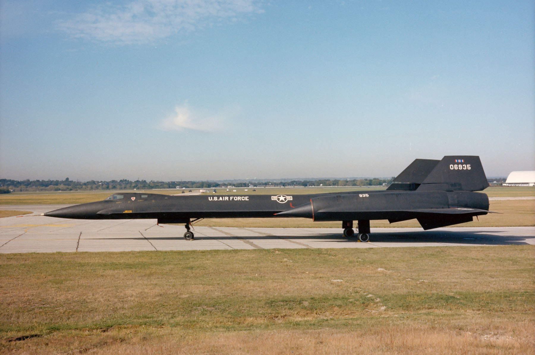 Lockheed YF-12A at the National Museum of the United States Air Force.